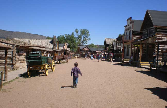 Buckskin Joe western theme park and movie set, Canon City, Colorado, USA.